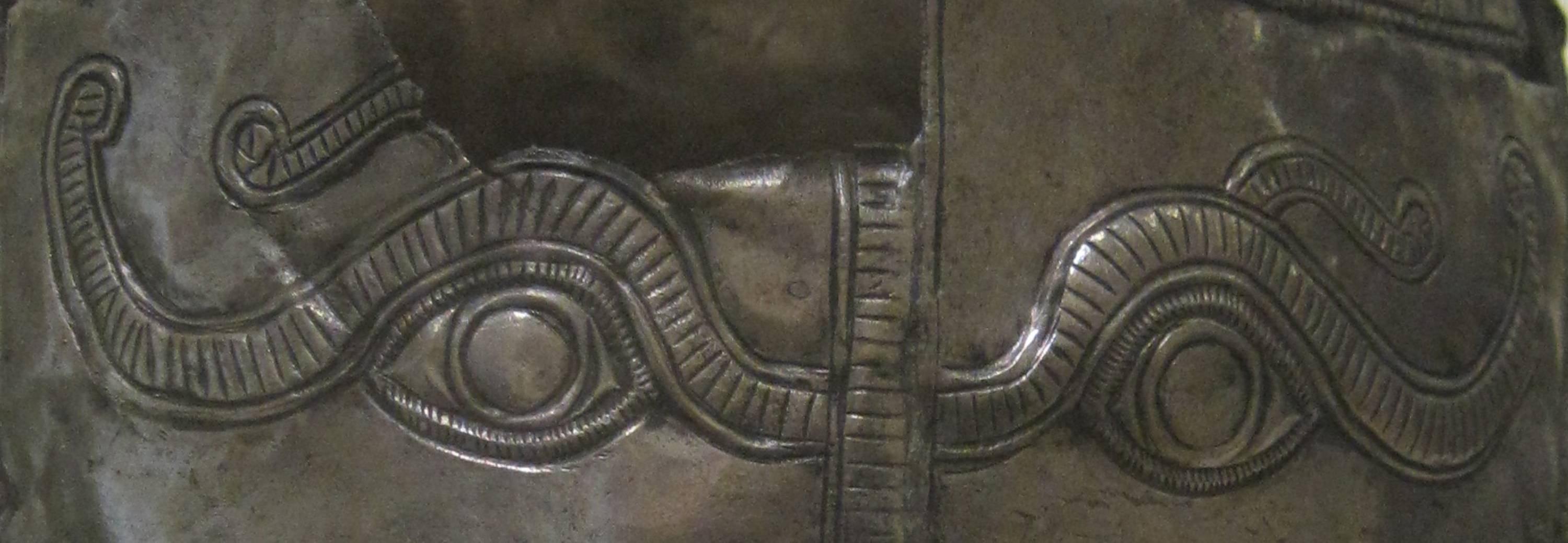 A Geto-Dacian helmet dating from the 4th century BC.